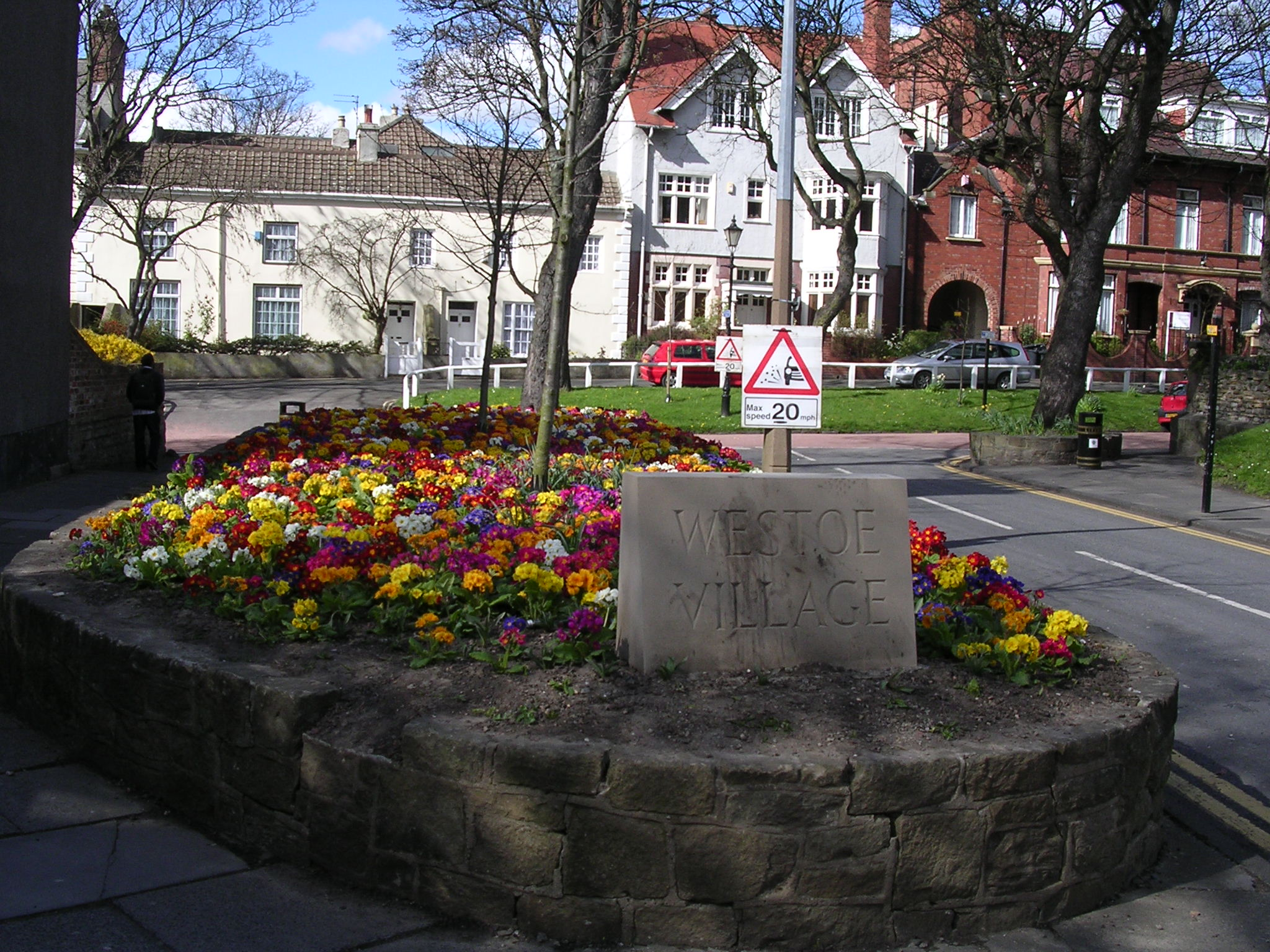 Westoe Village, South Shields, Tyne and Wear, United Kingdom